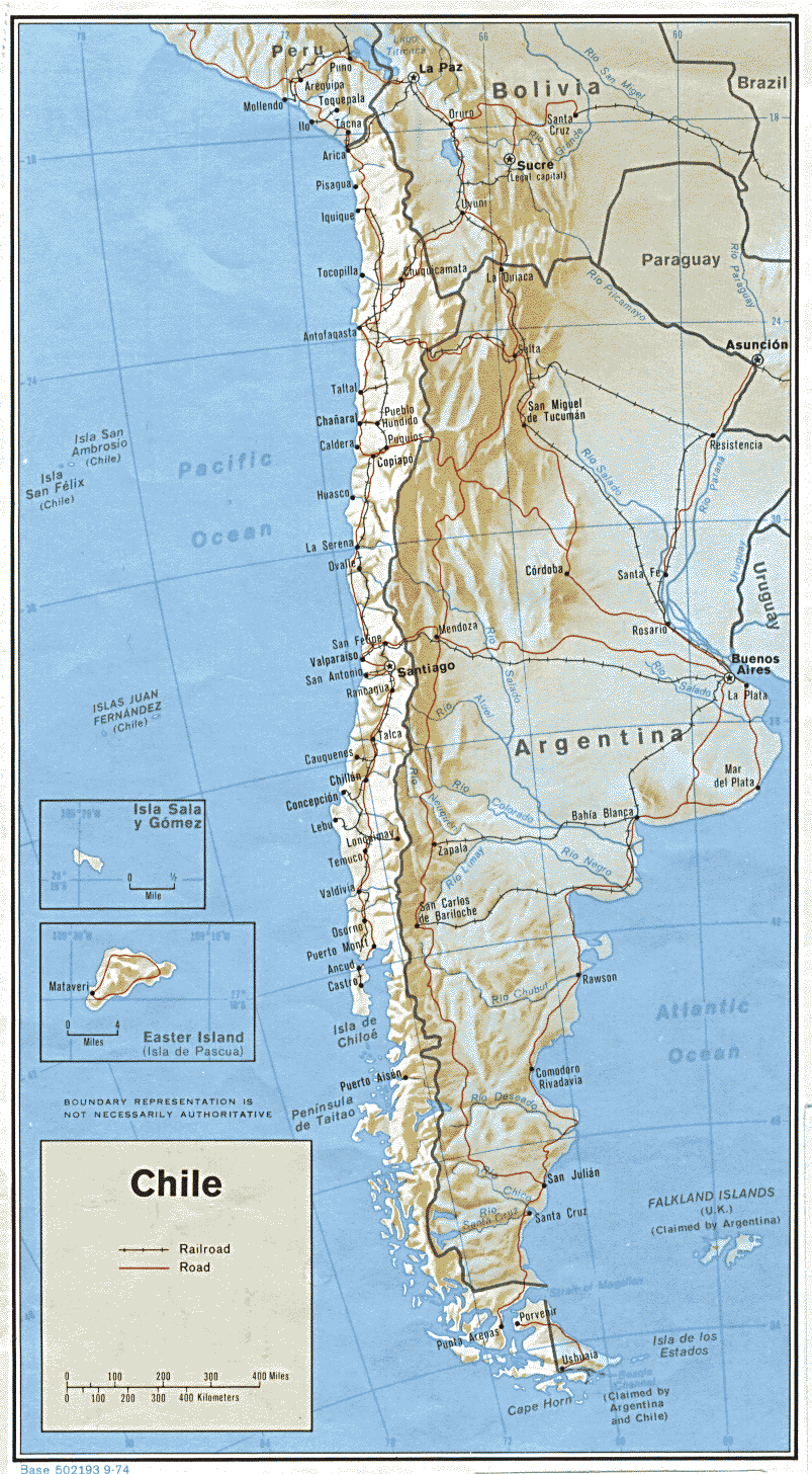 Shaded relief map of Chile.